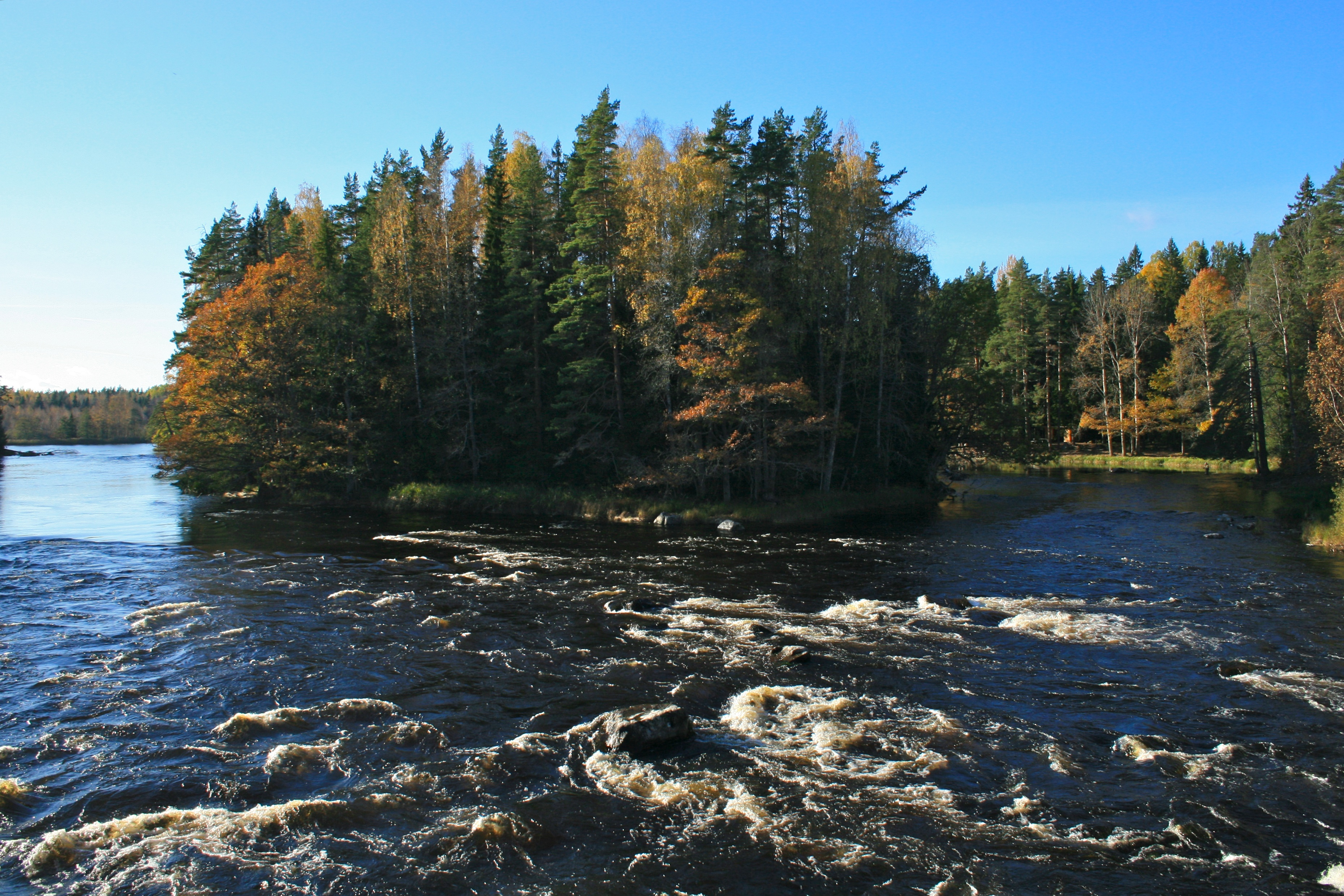 Rapids close to Sevedskvarn, Färnebofjärden national park